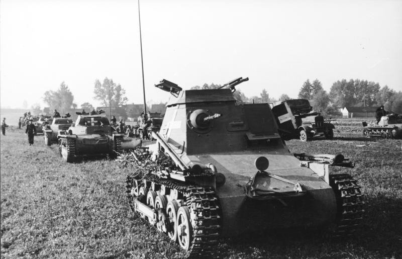 Command tank kl.PzBefWg Ib (SdKfz.265), behind it PzKpfw II.